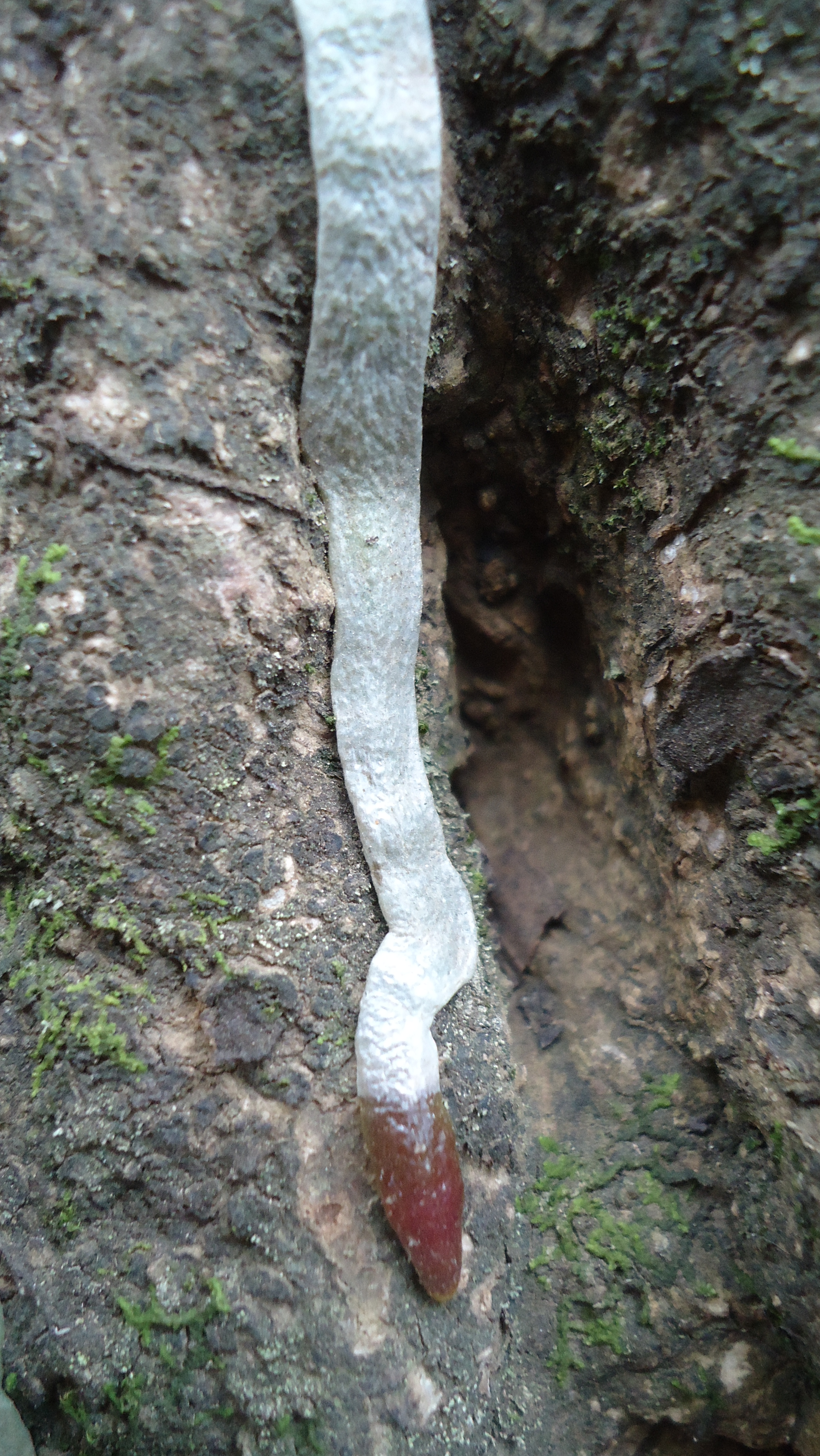 A clinging root of an epiphyte (Vanda orchid)